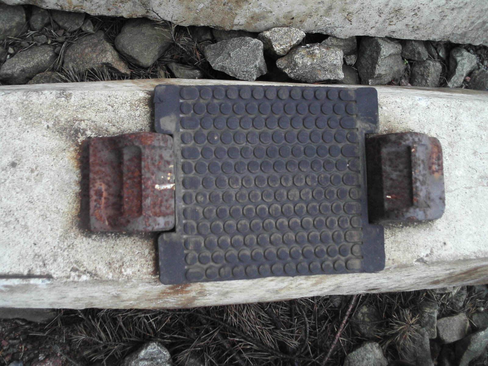 Rail fitting pad